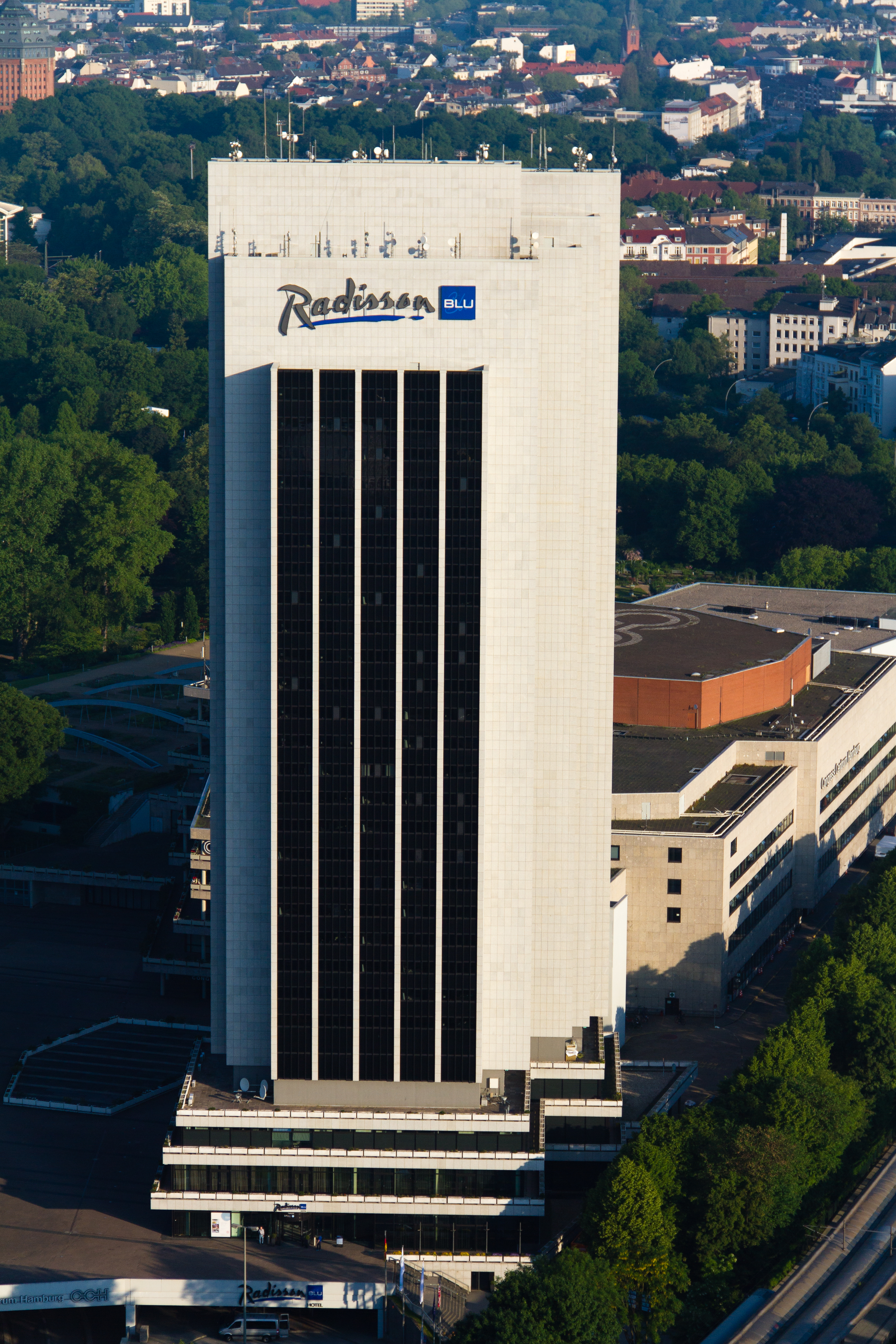 Radisson Blu Hotel Hamburg